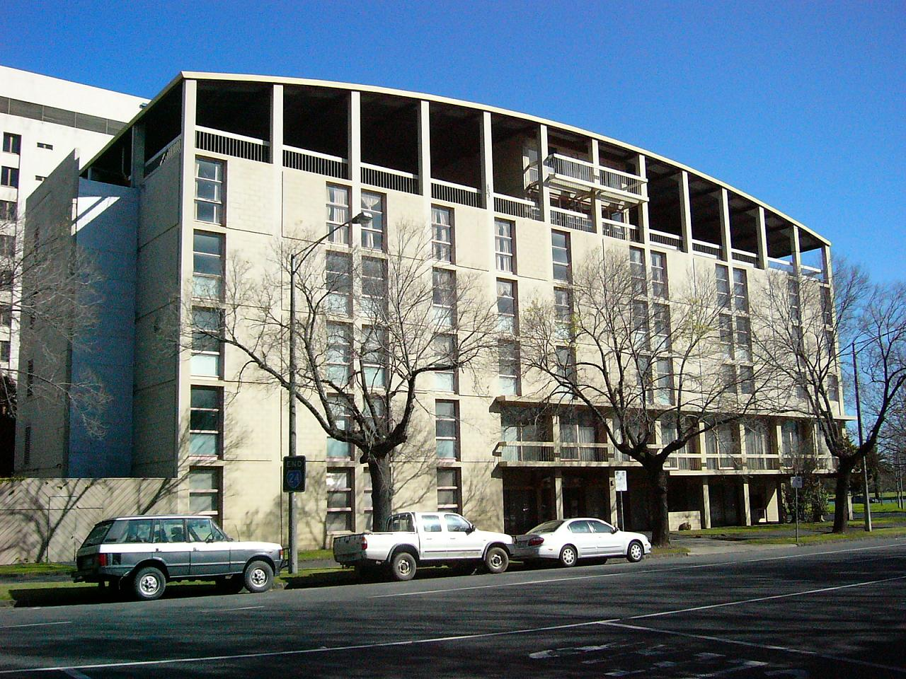 John Batman Motor Inn, Melbourne. Initial design by Bernard Evans; remodelling and added curved roof by Robin Boyd